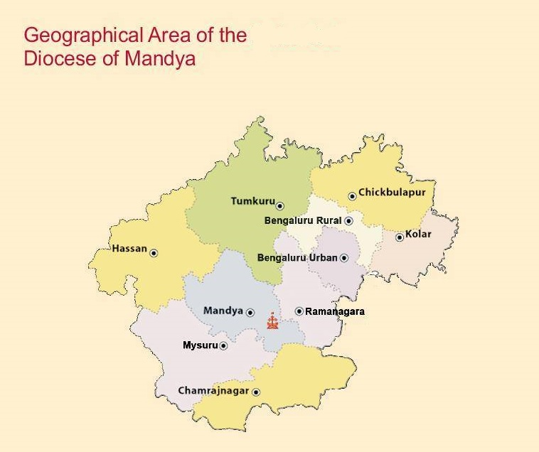 Mandya Diocese Eparchy of Mandya